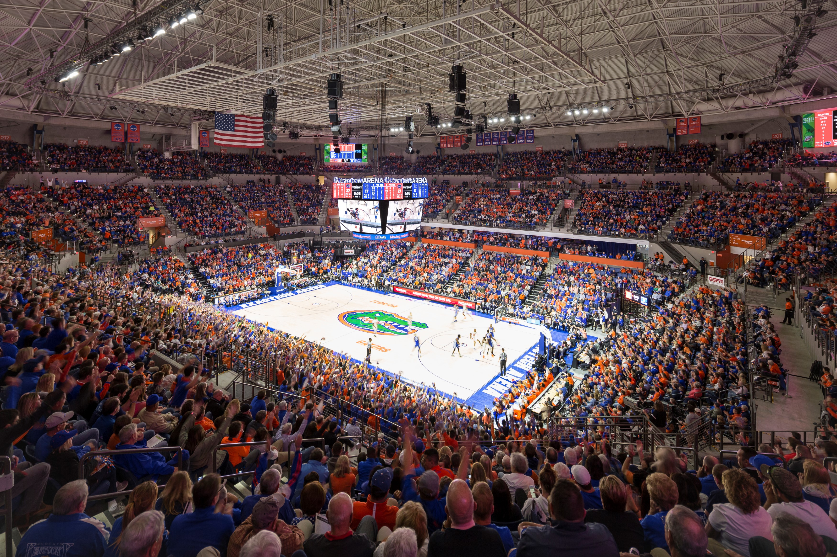 The interior of the O'Connell Center, the University of Florida's multi-purpose indoor sports arena. The "O'Dome" is located on the university's Gainesville, Florida campus.